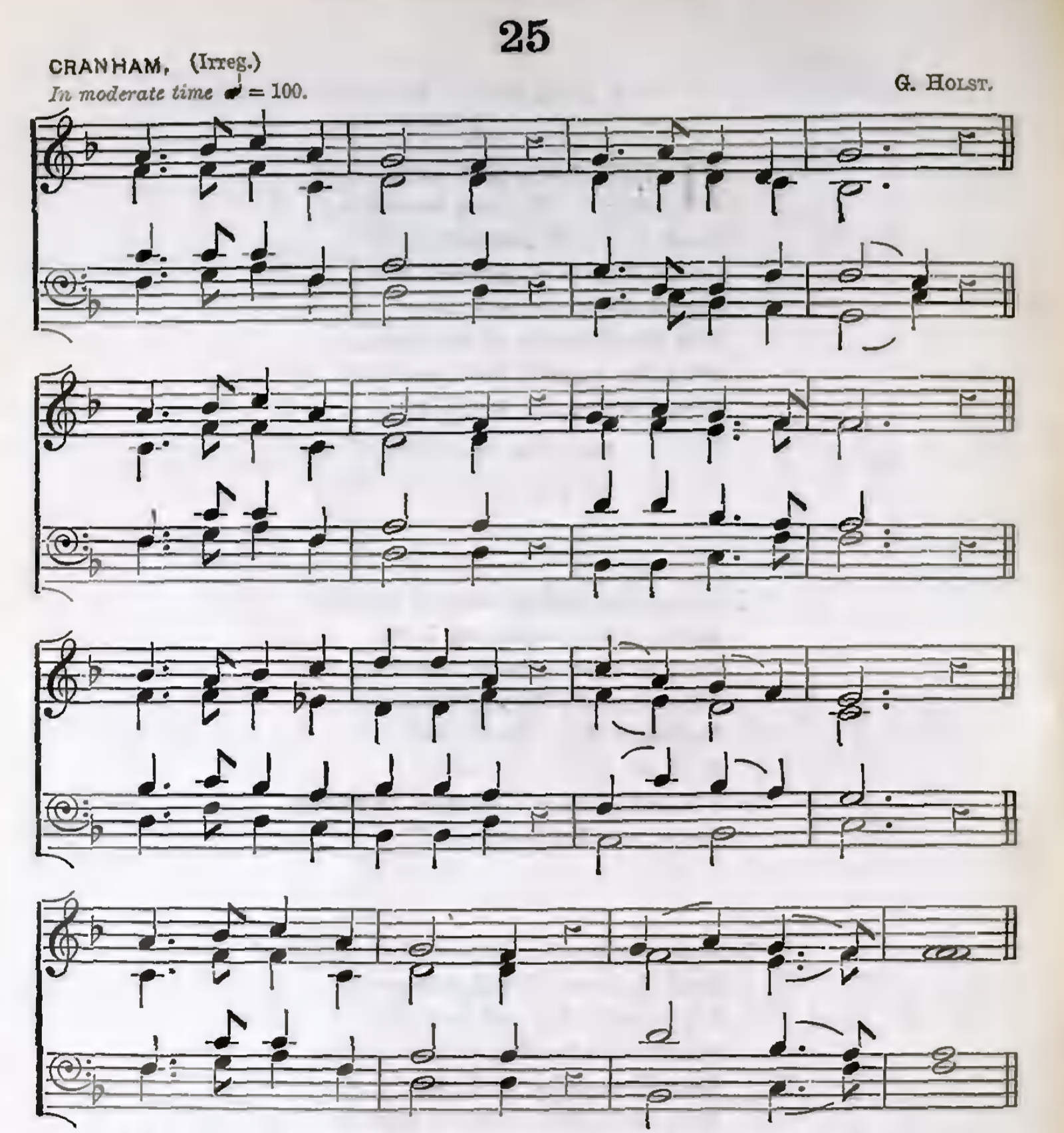 The hymn tune "Cranham", by Gustav Holst, set to the text "In the bleak mid-winter"